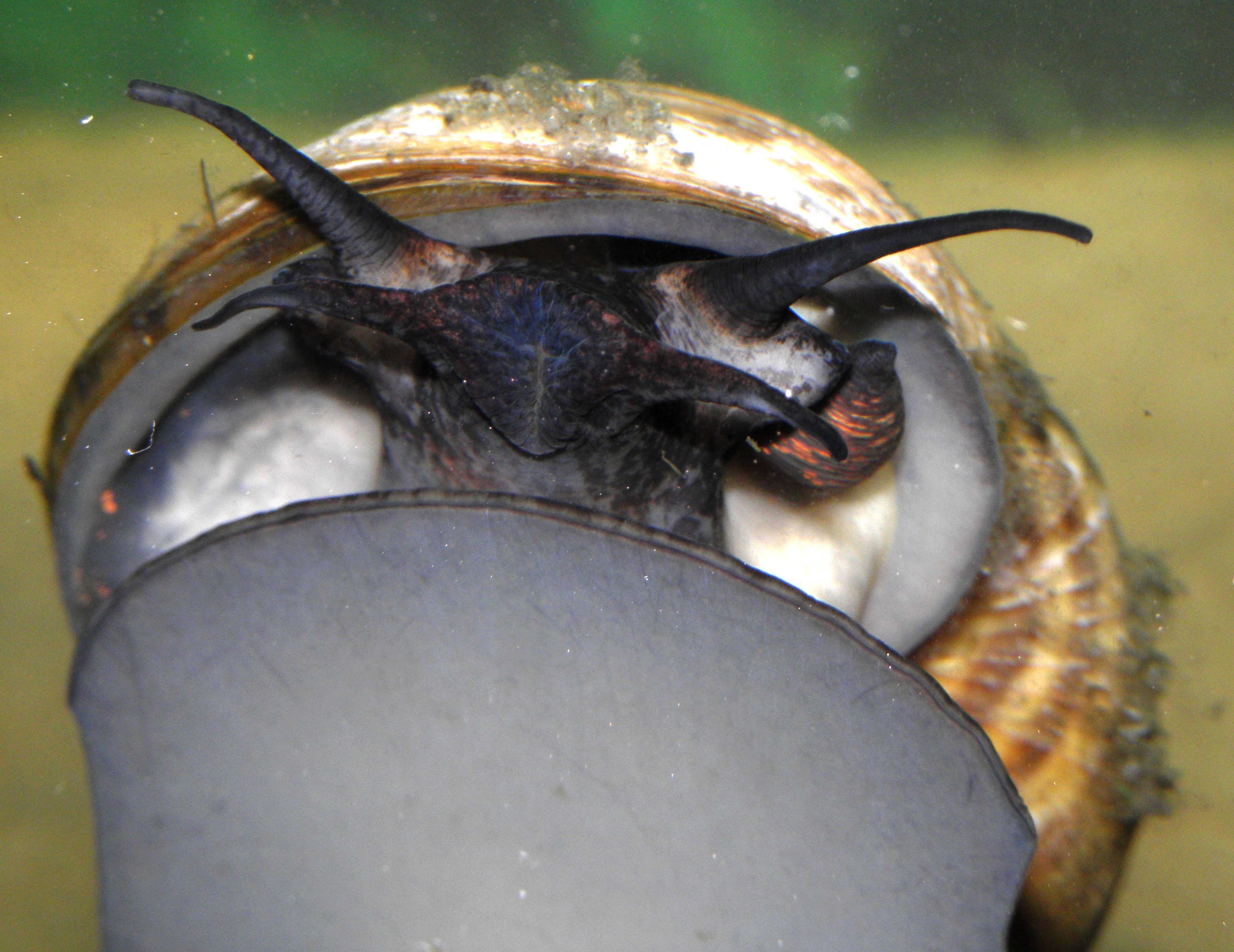 Channeled applesnail (Pomacea canaliculata) face.